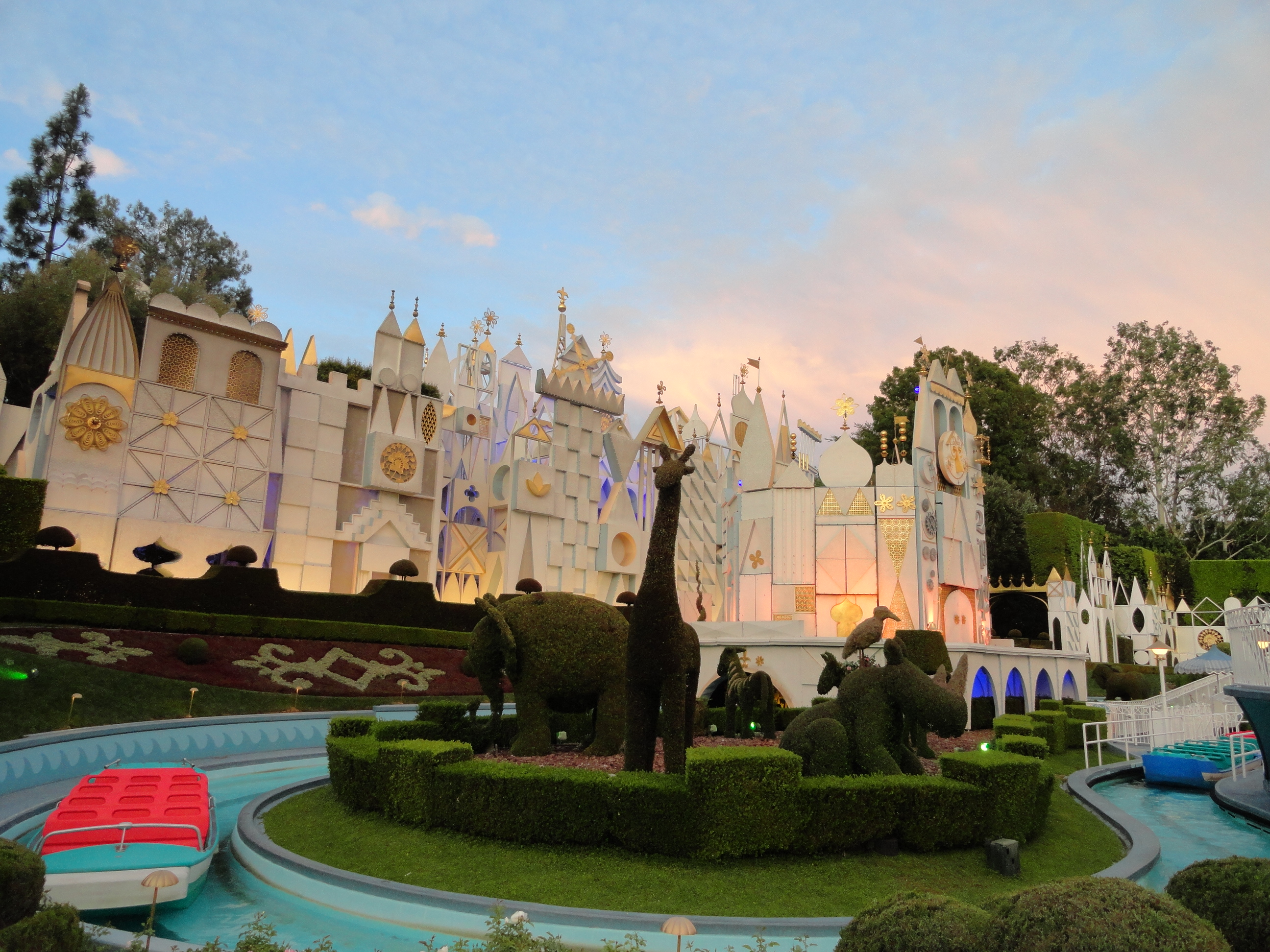 Visit my travel blog at Xcellent Trip for great travel tips about some of the most popular world destinations. This is picture from Disneyland park in Anaheim, Los Angeles (LA), California (CA) United States of America (USA).